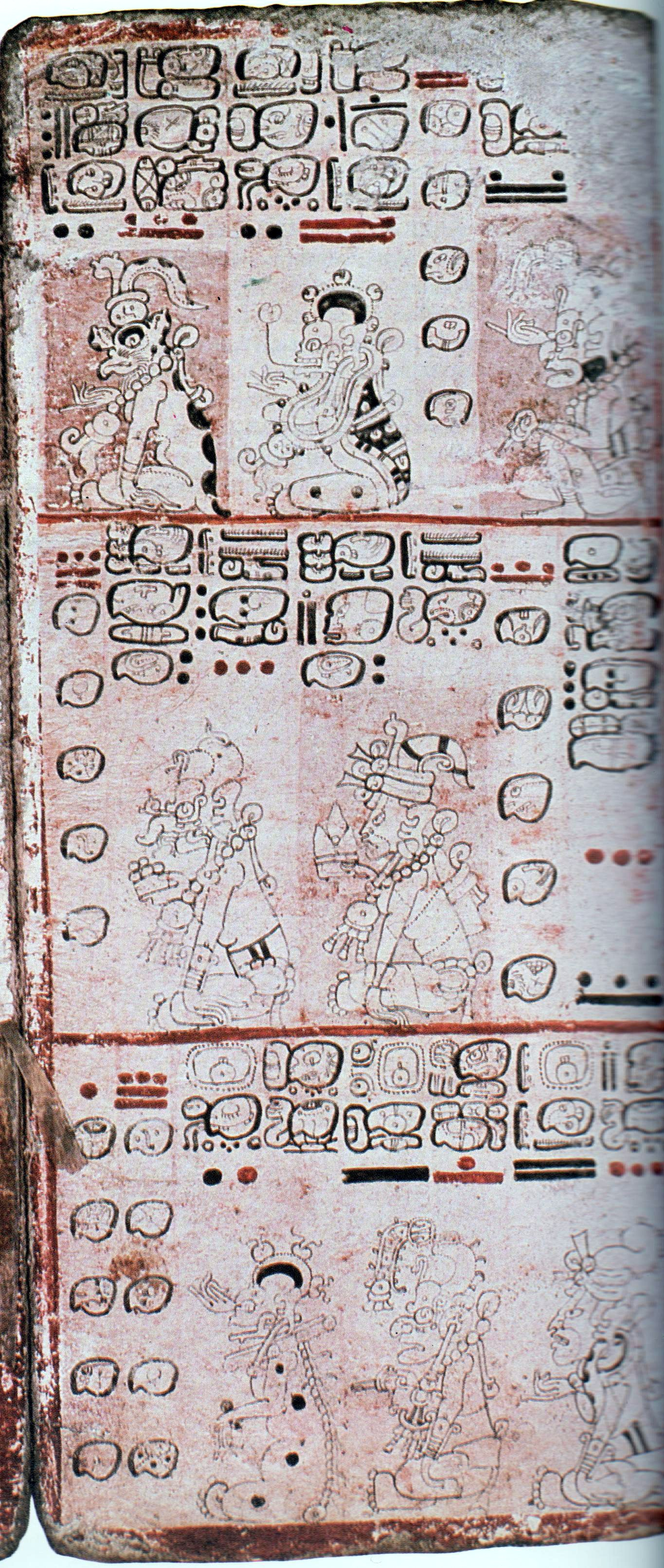 Page 10 of Codex dresdensis